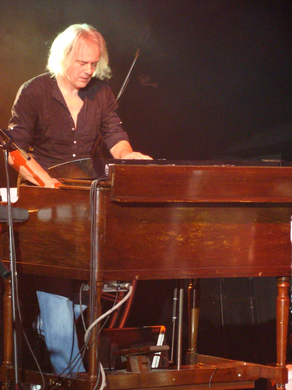 Uriah Heep live